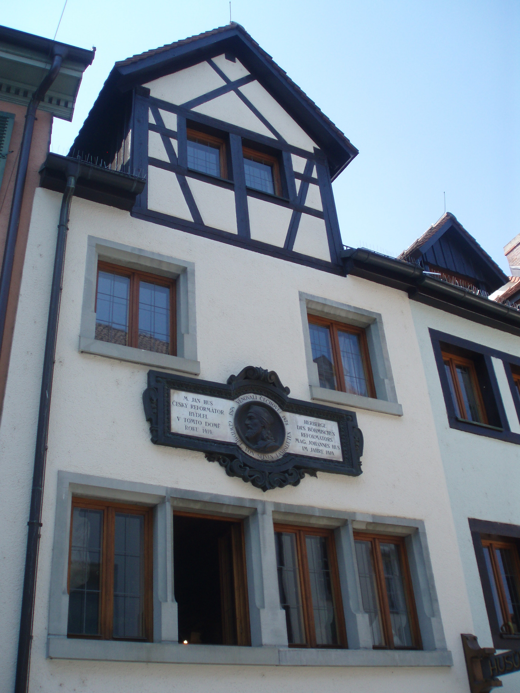 House of John Hus in Konstanz, Hussenstraße 64